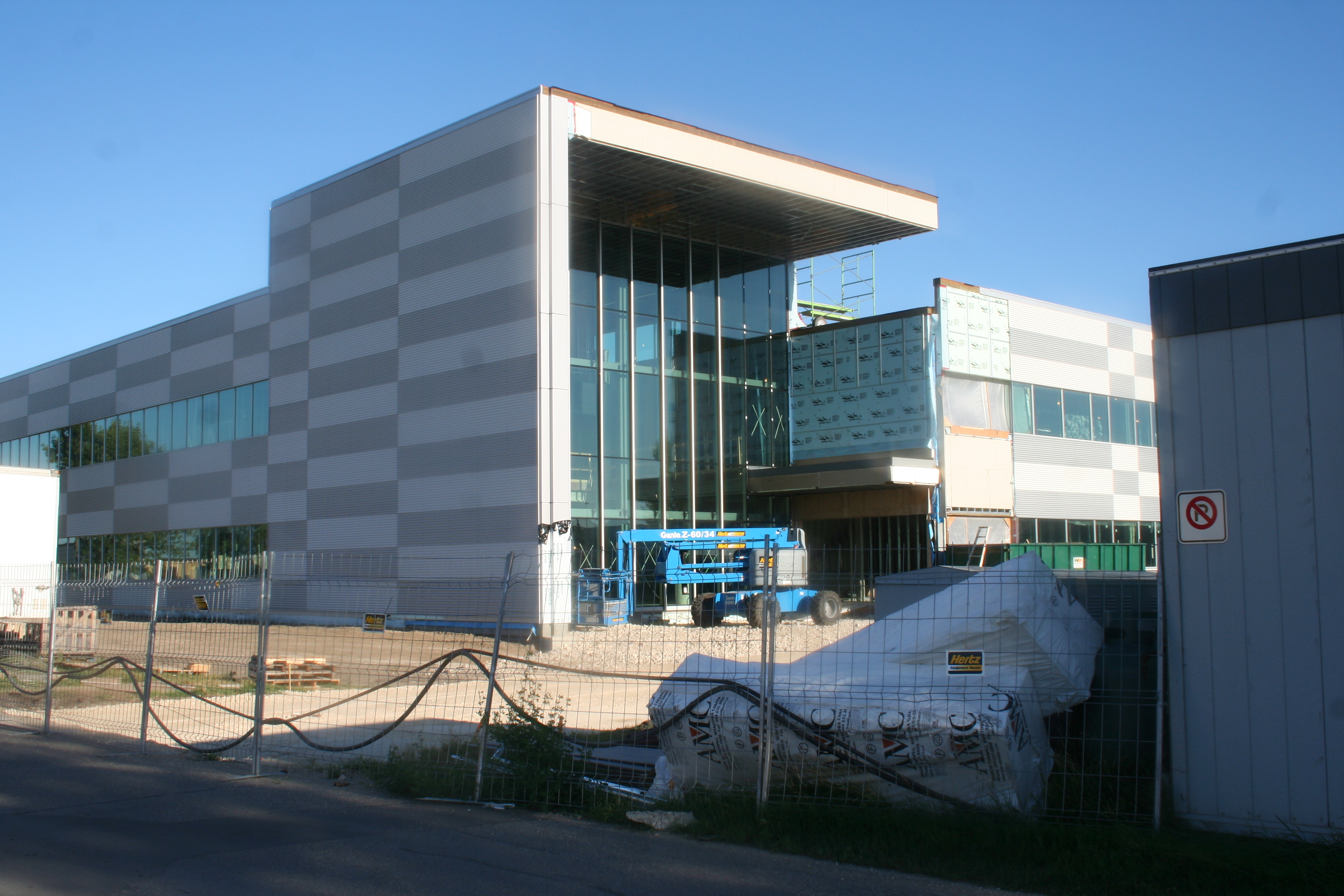 The new Allied Wings Headquarters building under construction at Southport Aerospace Centre c. 2007.